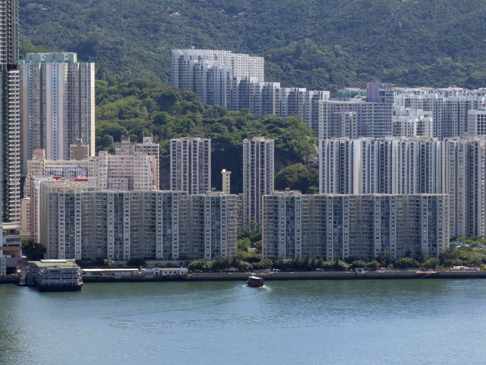 Phase 1,2,3 of Lei King Wan, Sai Wan Ho